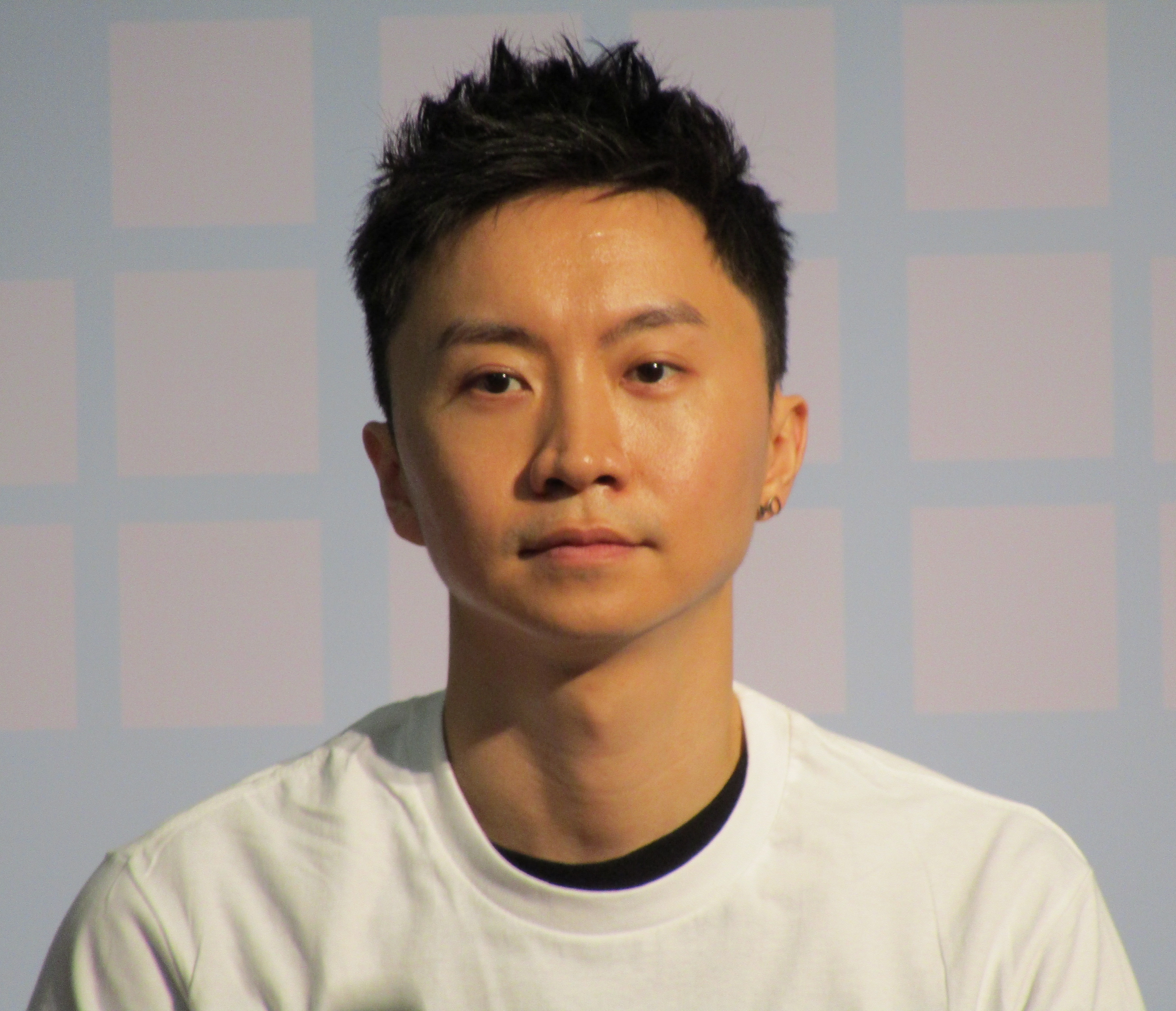 Mason Ma is singing at Wonderful Worlds of Whampoa, Hung Hom